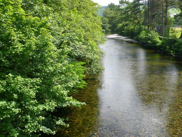 Afon Wnion at the bridge at Dolgellau. This is the view east along the river, looking almost straight along the east-west grid line, which at this point runs along the river. The river bank on the left is in SH7218 and the bank on the right is in SH7217.